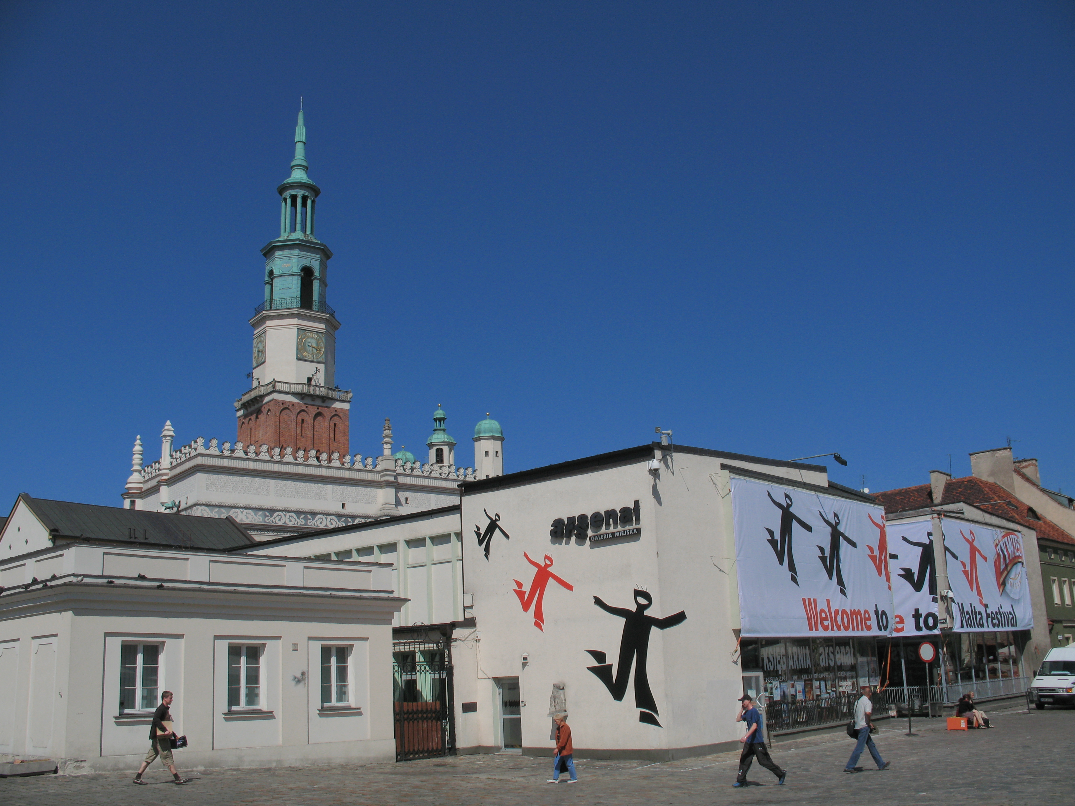 posters announcing the Malta Festival in Poznań